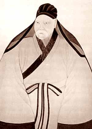 Korean philosopher Park Ji-won